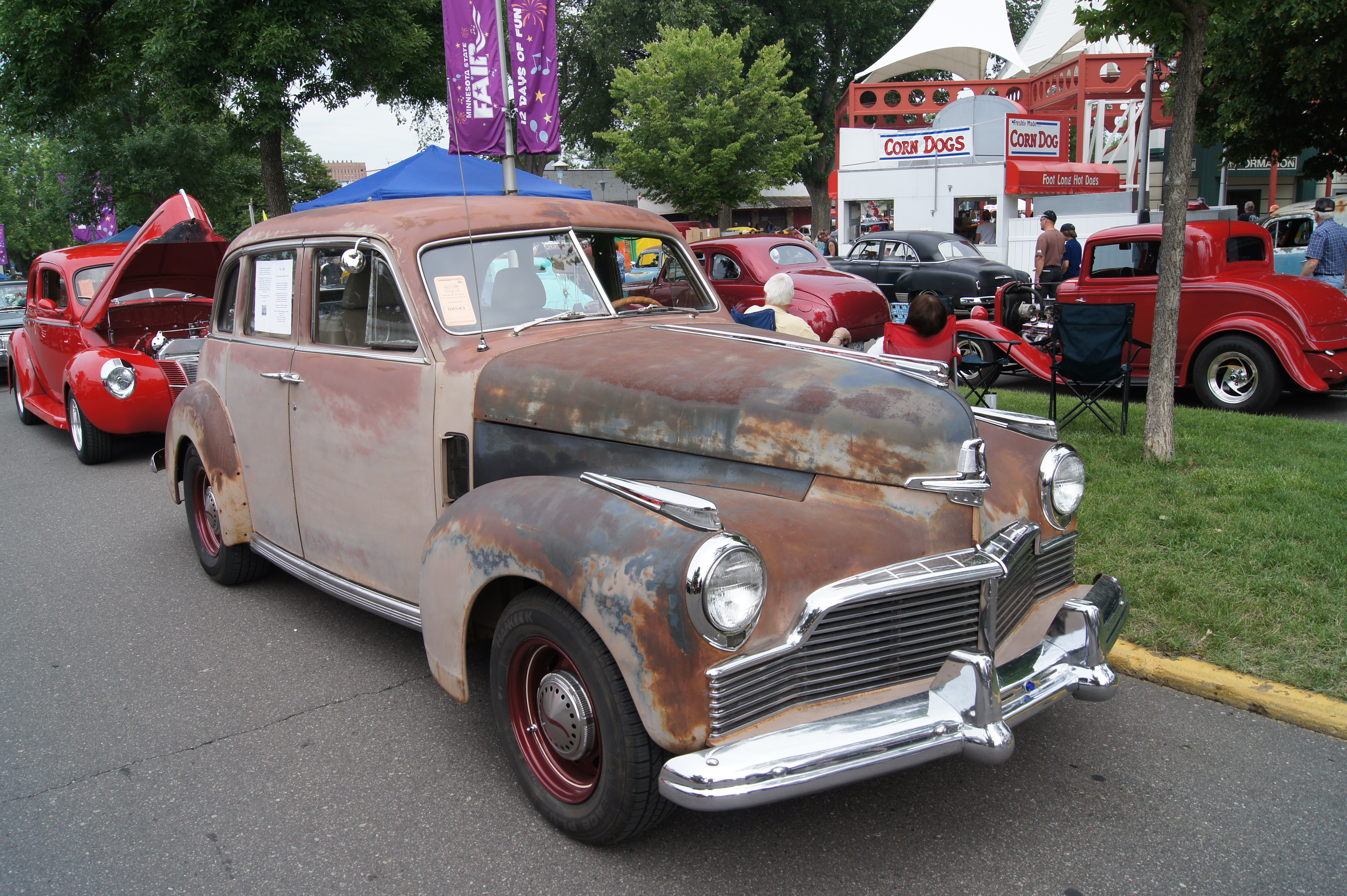 Minnesota Street Rod Association 39th Annual "Back to the Fifties" June 2012 Minnesota State Fairgrounds St. Paul MN